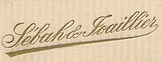 Avxentii Pelagoniiski